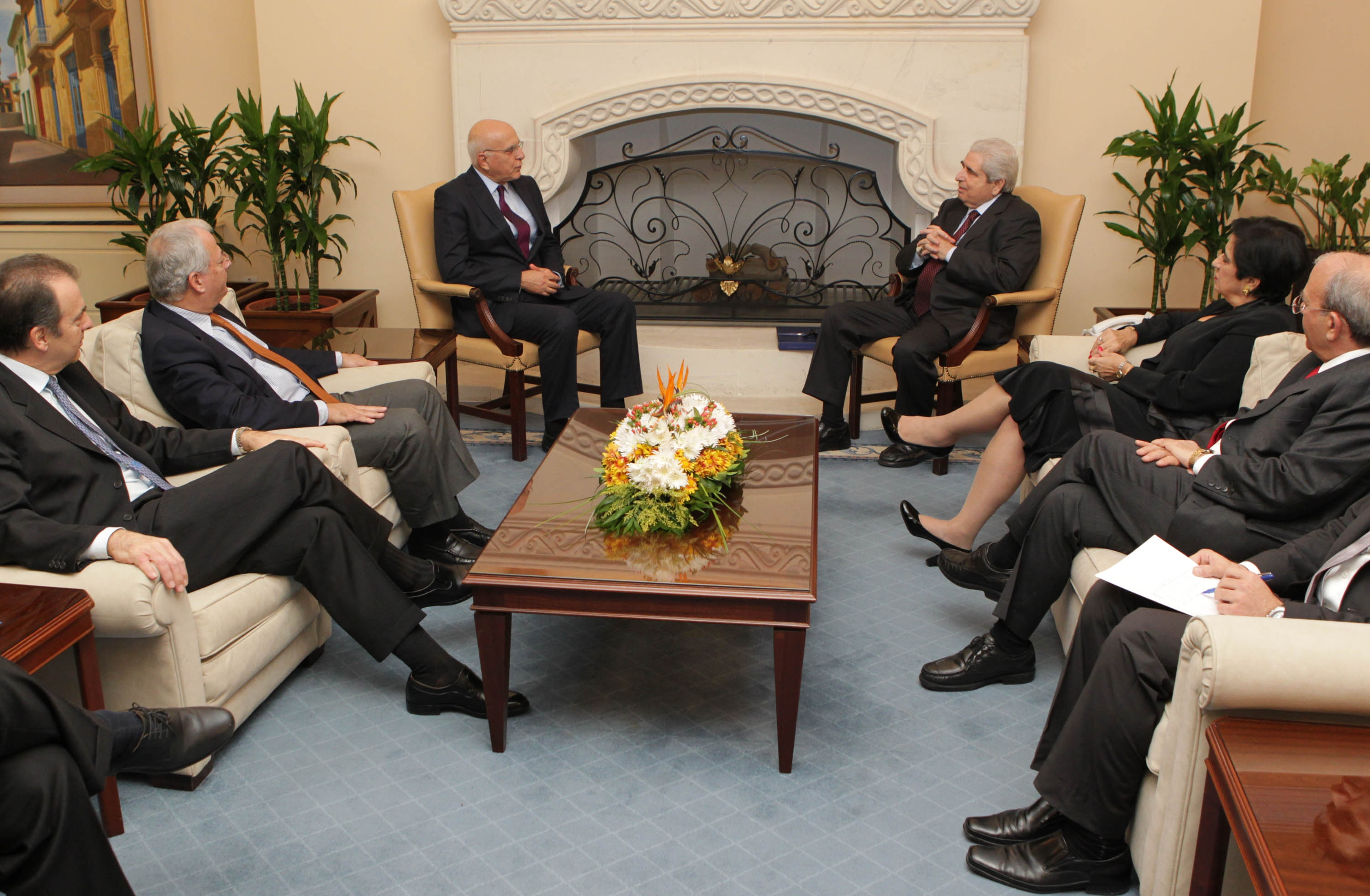 Greek Foreign Minister Stavros Dimas with Cyprus President Demetris Christofias (11/22/11.